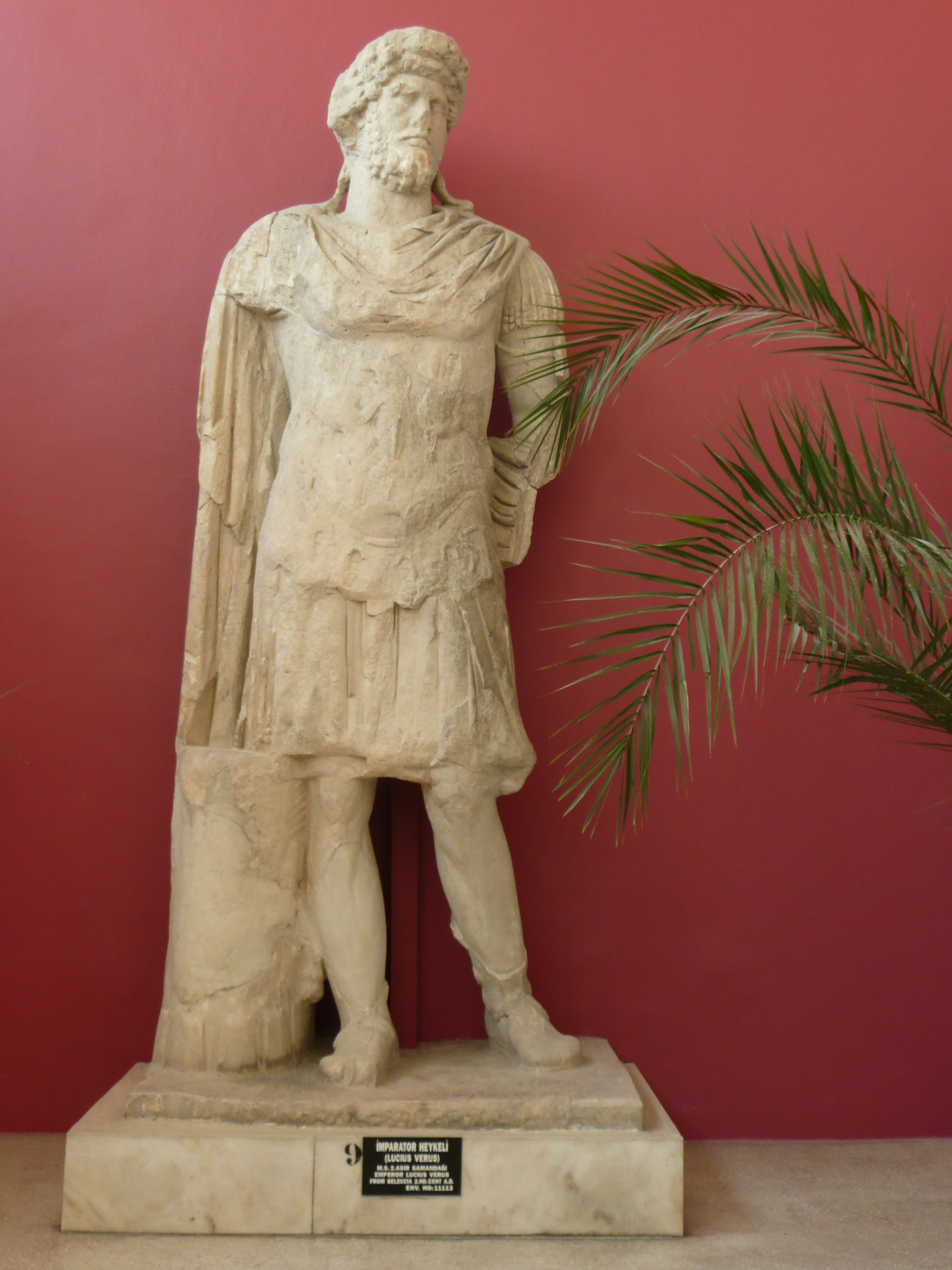 Photographs from Antakya Archaeological Museum of the roman emperor Lucius Verus